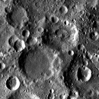 Gregory is the eroded crater at right upper center, with satellite Q adjacent to SW rim